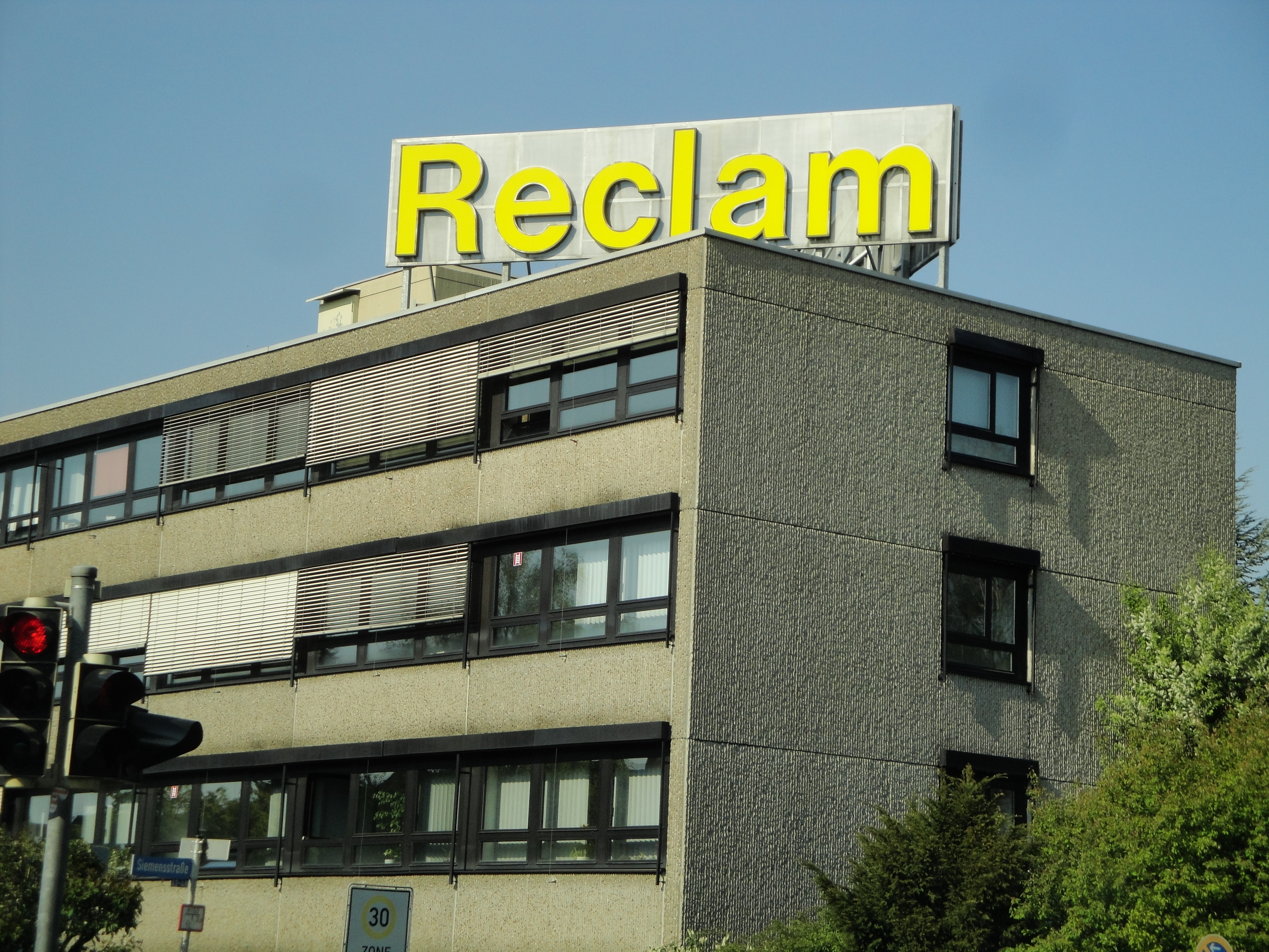 reclam